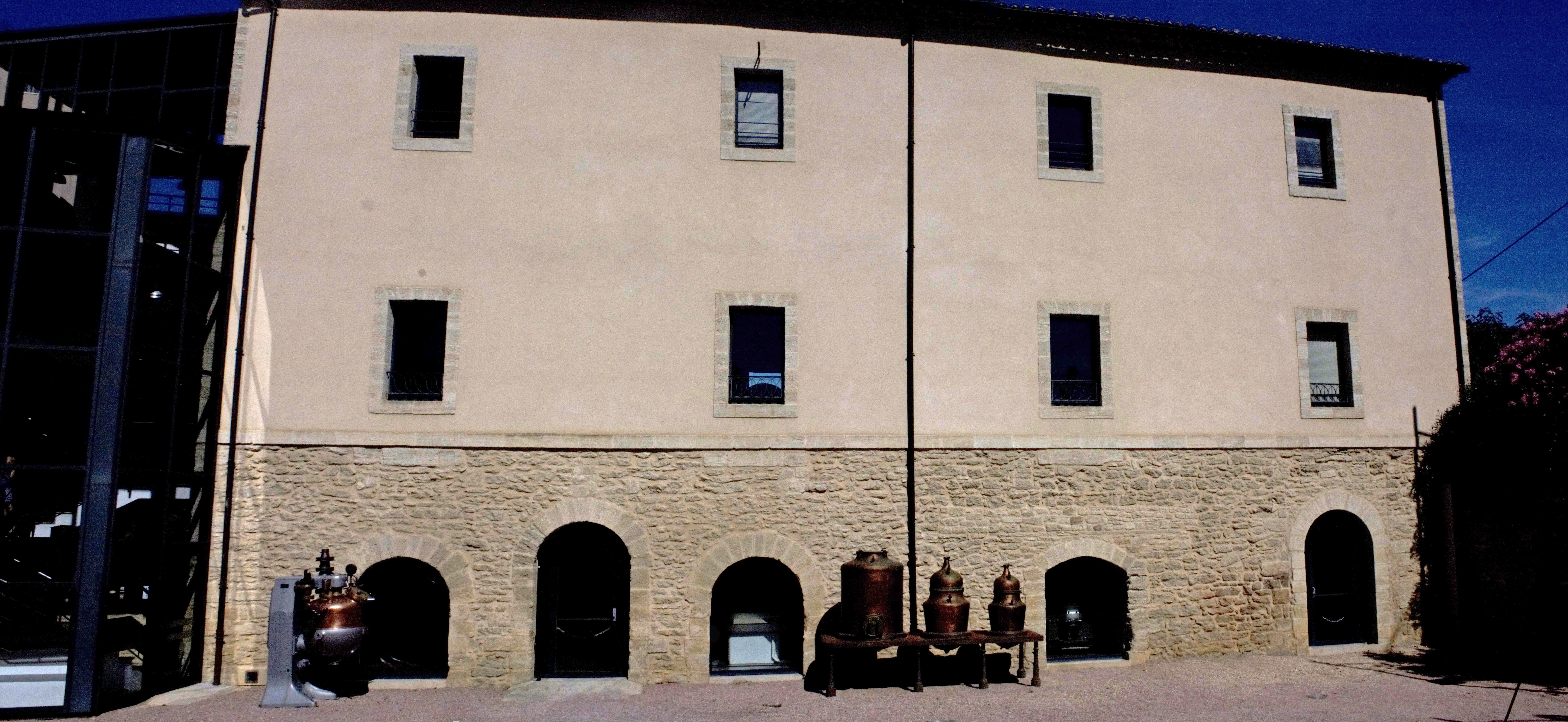 In the early nineteenth century, the building housed the mill and spinning silk Teraube. At the end of the century it houses the confectionery and liquorice Zan before becoming the Museum of Haribo sweets. (Joined in inventory of hstorics monuments under Industrial Heritage).